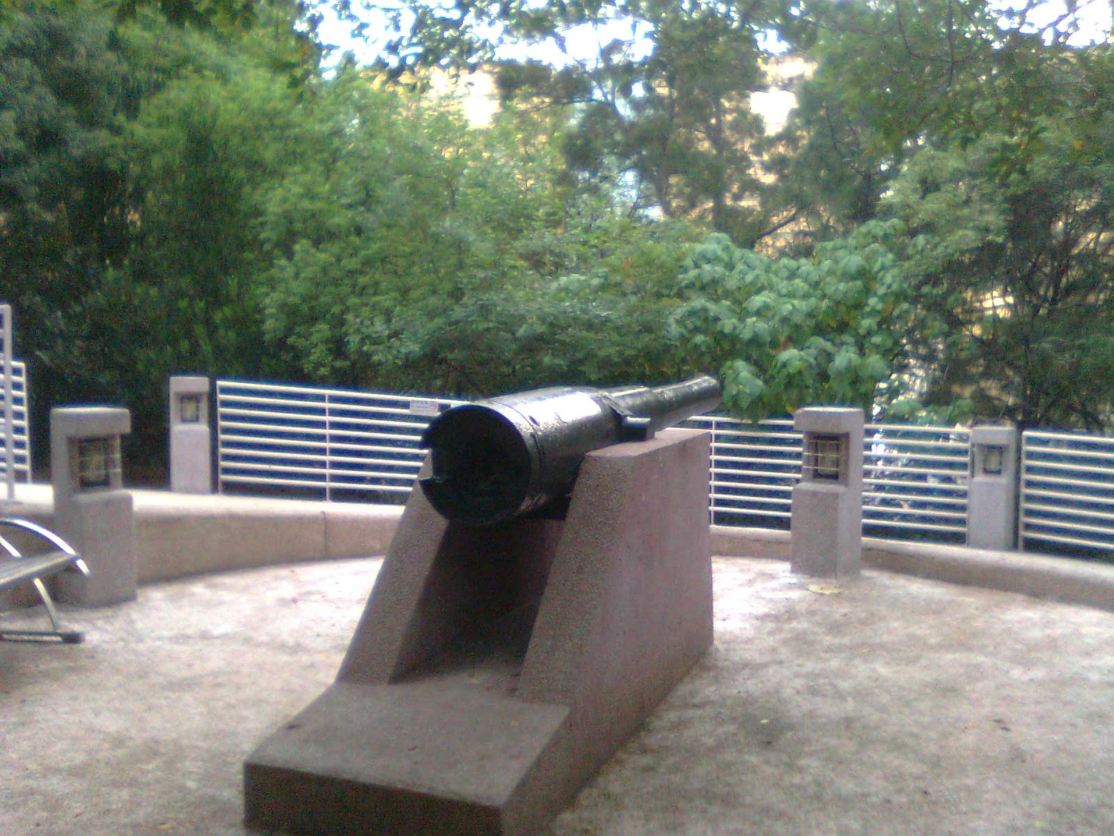 Remains of Kowloon West II Battery within Kowloon Park, Hong Kong.